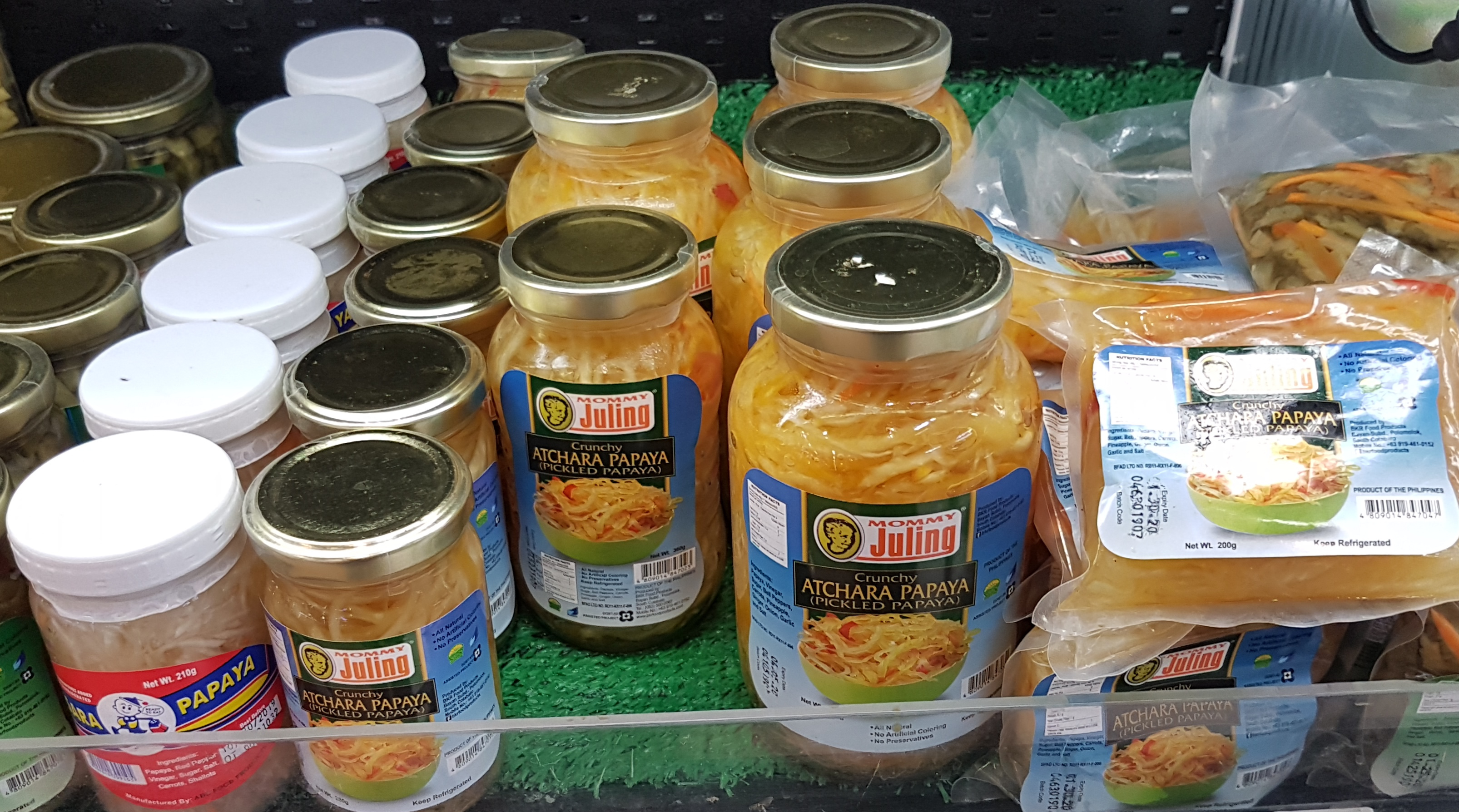 Bottled atchara (pickled papaya) sold in a supermarket in the Philippines